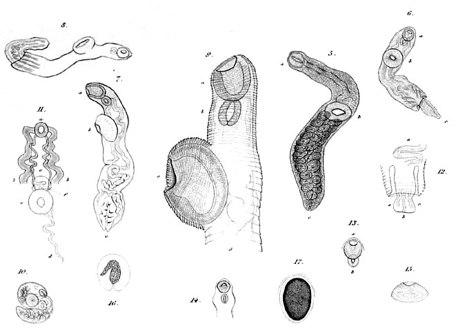 Legend here - "Distomum glauci", today considered as a hemiurid larva